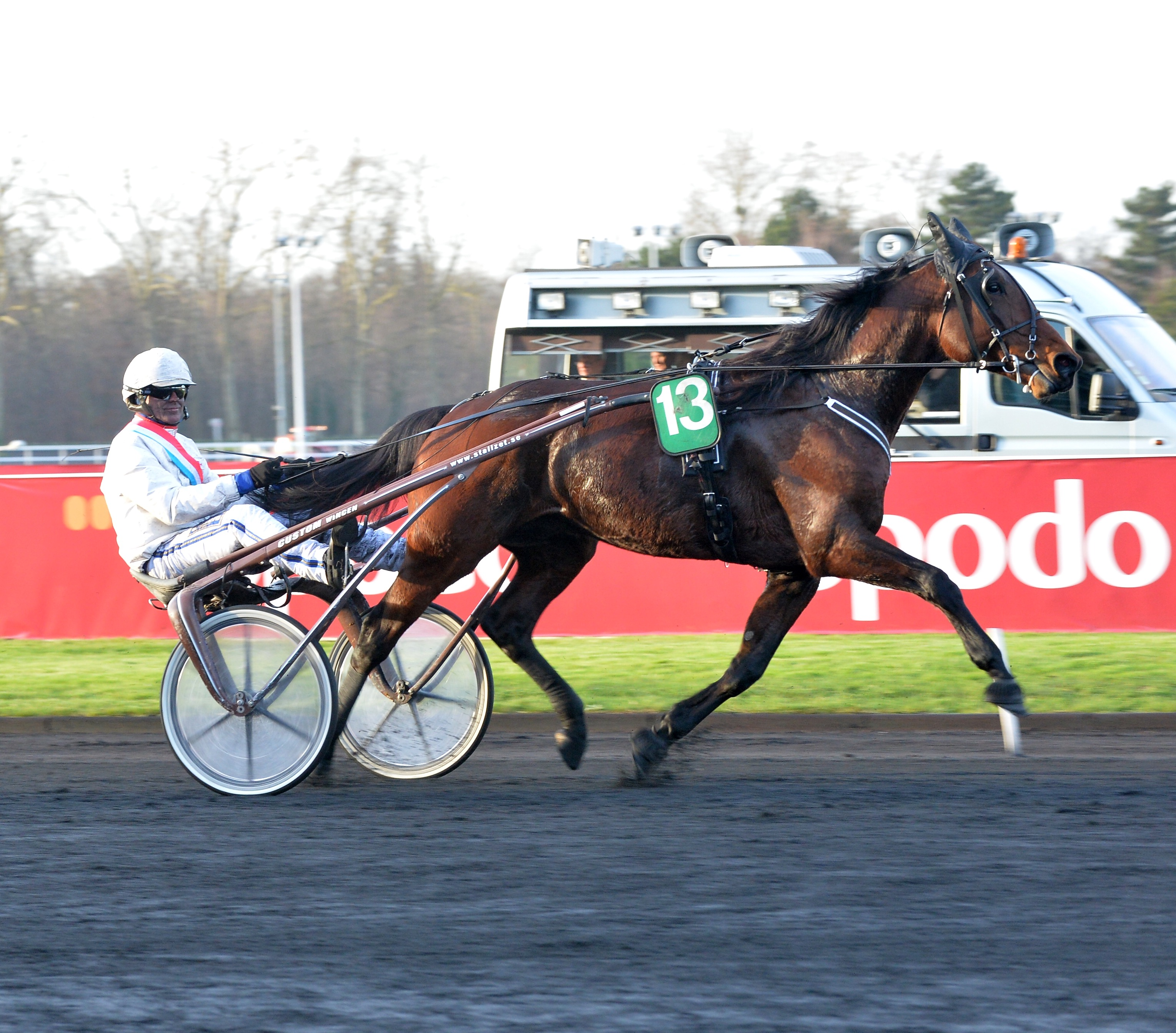 Call Me Keeper & Björn Goop at Vincennes Hippodrome in Paris in January 2015.